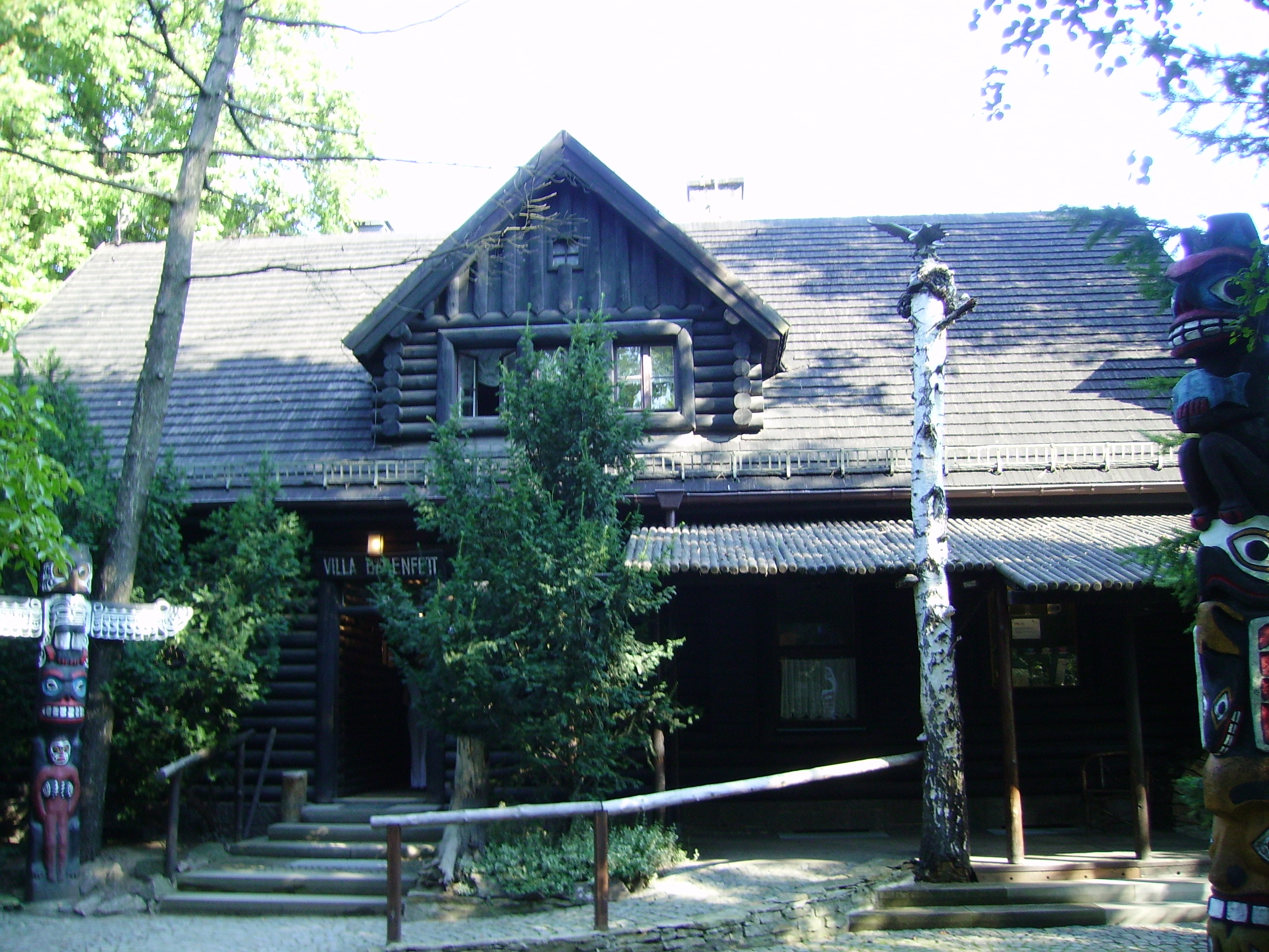 Karl May Museum in Radebeul (Dresden, Germany)